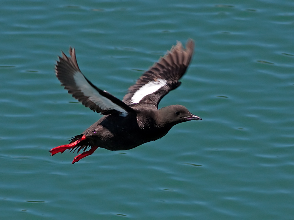 A Black Guillemot flying at Portpatrick, Dumfries and Galloway, Scotland.